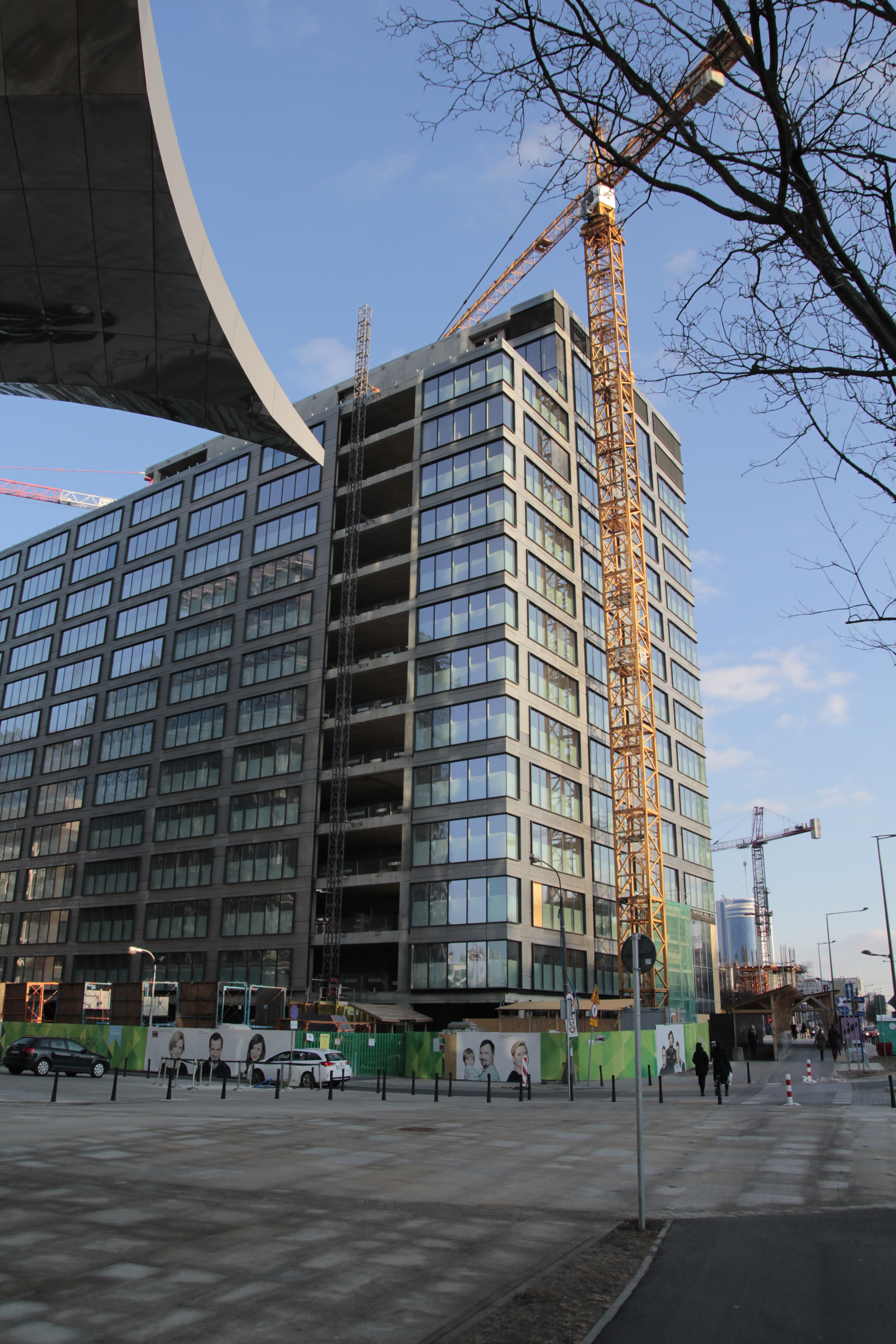 Generation Park, first building, Warsaw